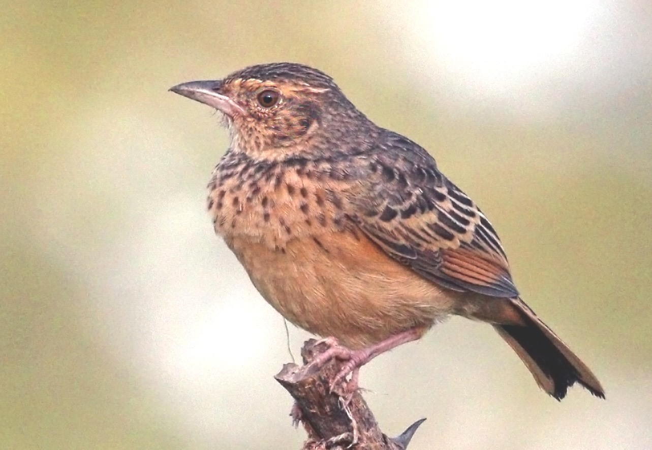 Flappet lark (Mirafra rufocinnamomea kawirondensis), Queen Elizabeth National Park, Uganda